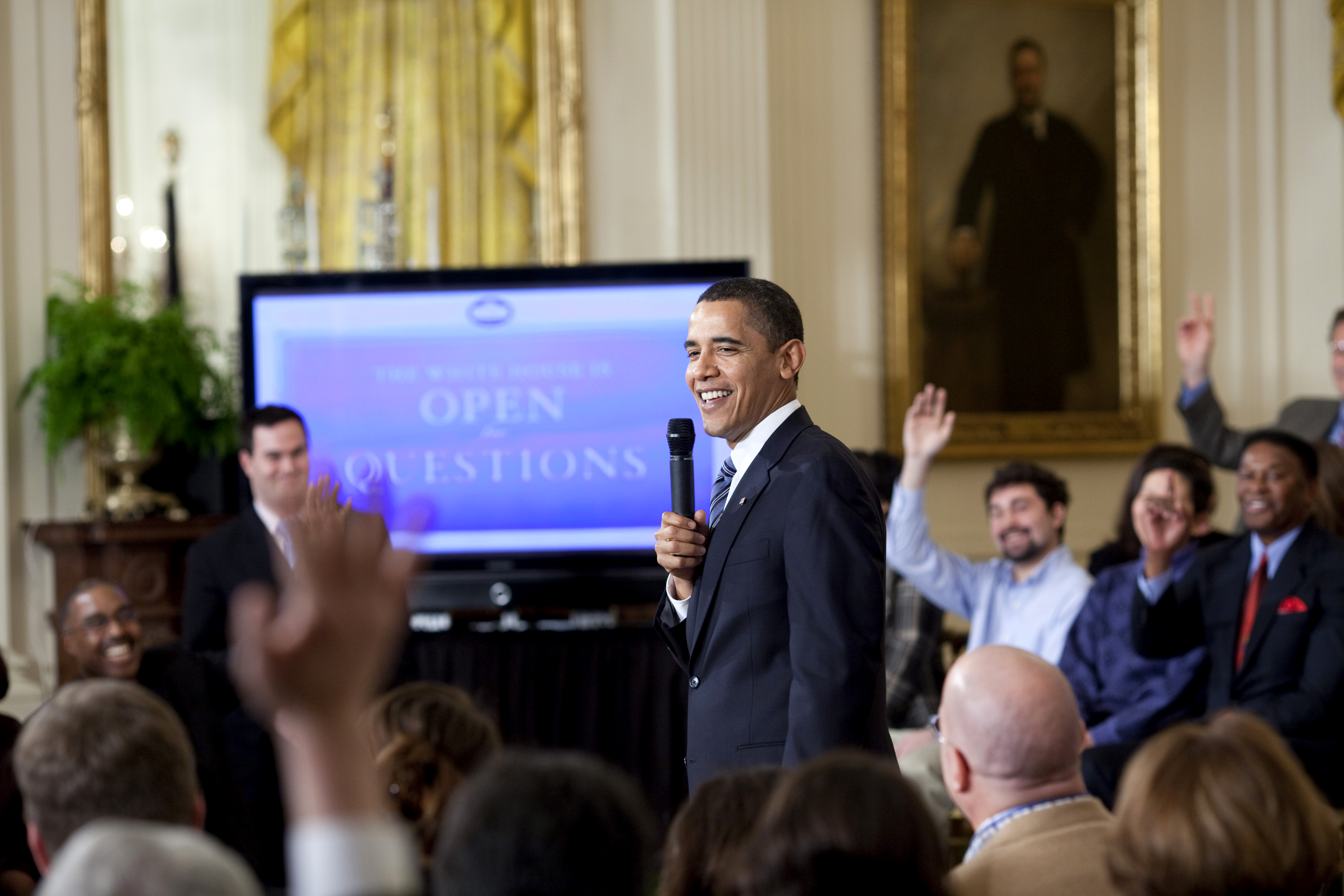 President Barack Obama engages the audience at an "Open for Questions" online townhall.